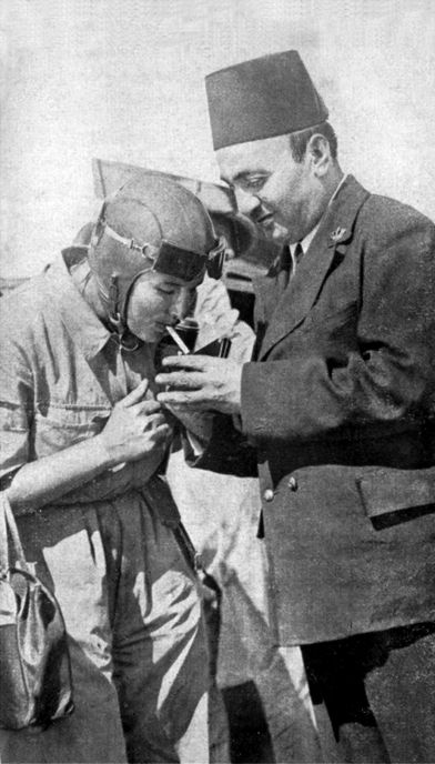 Irina Burnaia, Cairo, February, 1935